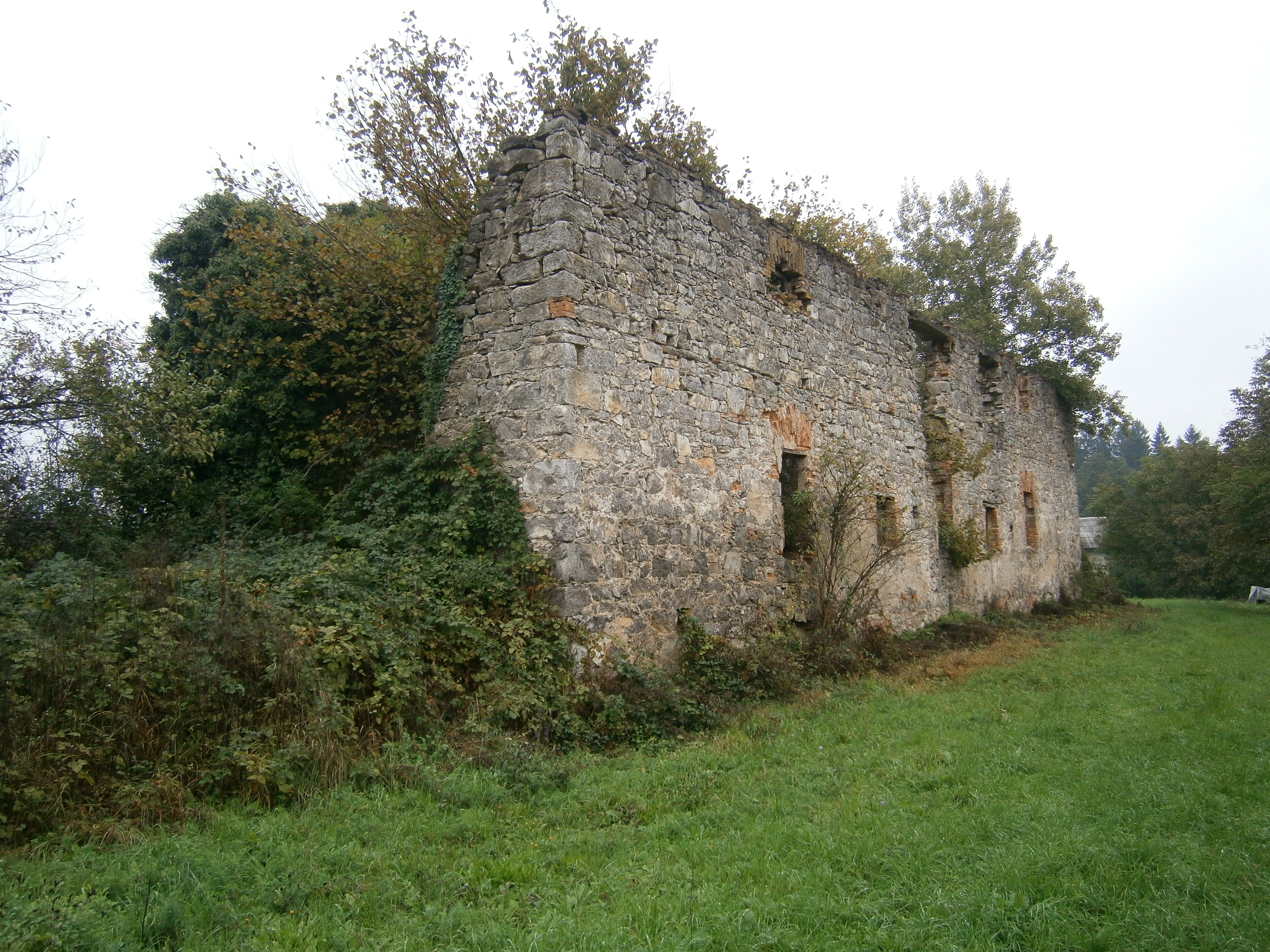 Ruins of the grain despository belonging to castle Krupa (Bela krajina region, Slovenia)